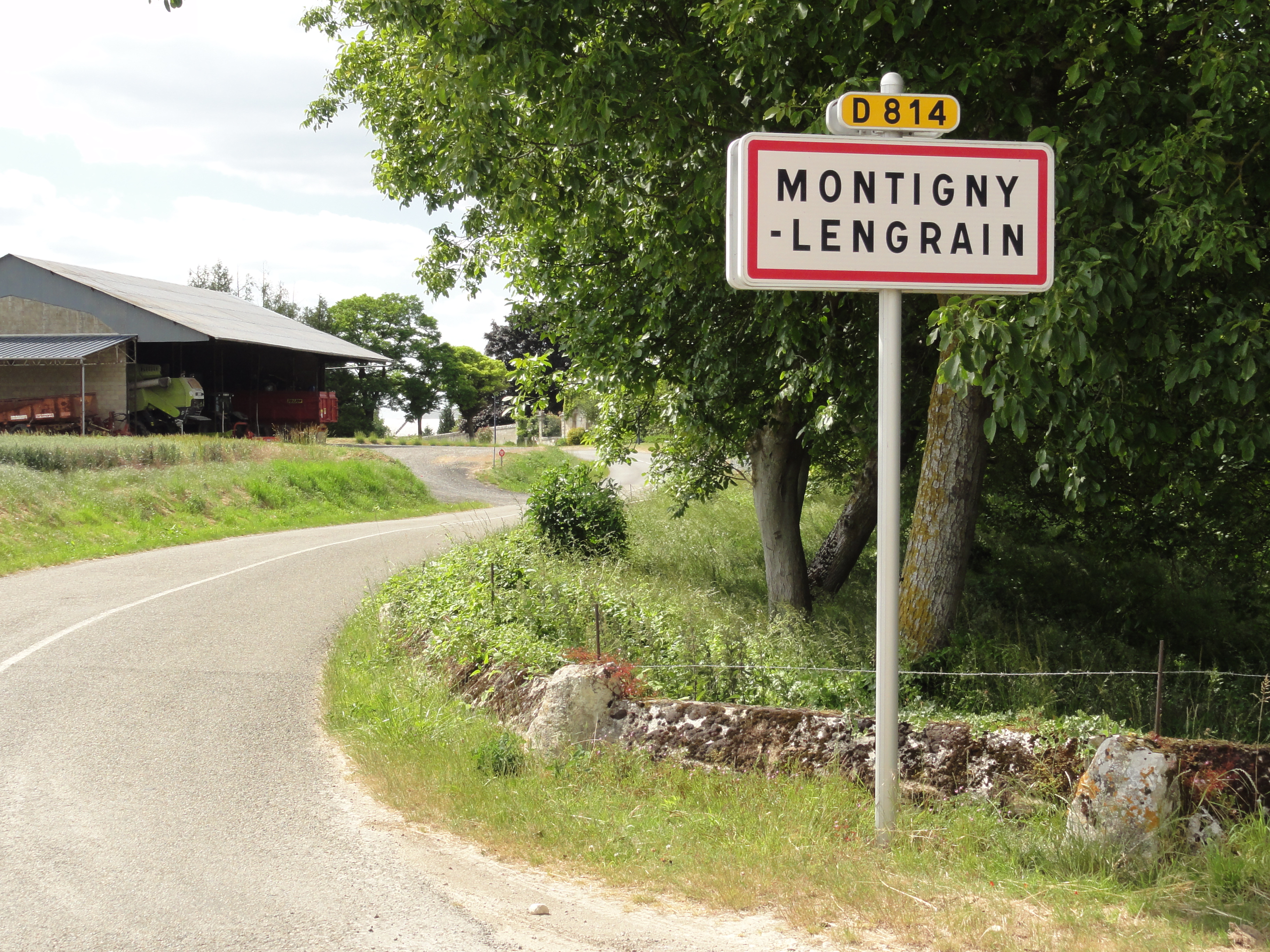 Montigny-Lengrain (Aisne) city limit sign